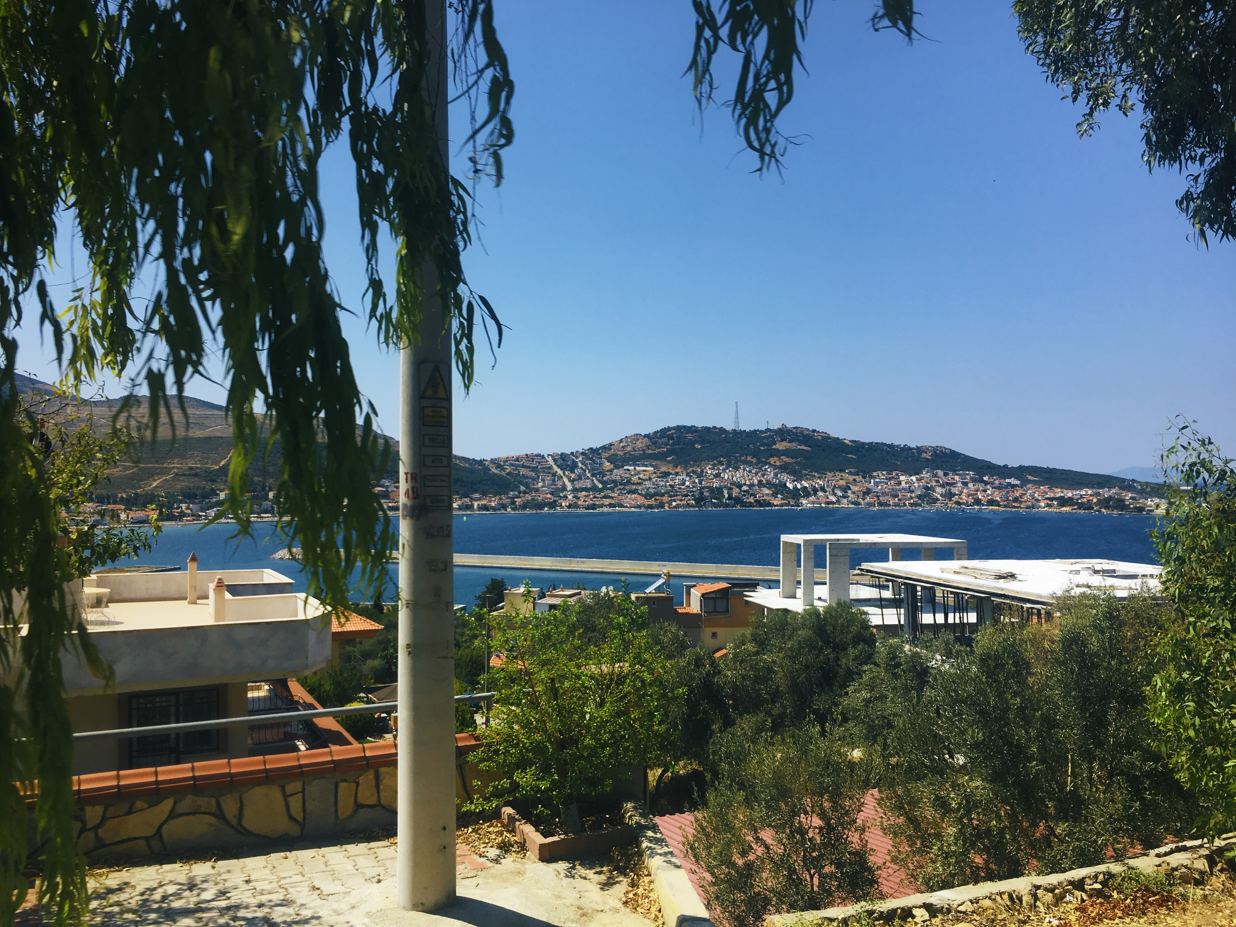 View of the bay in Yenifoça